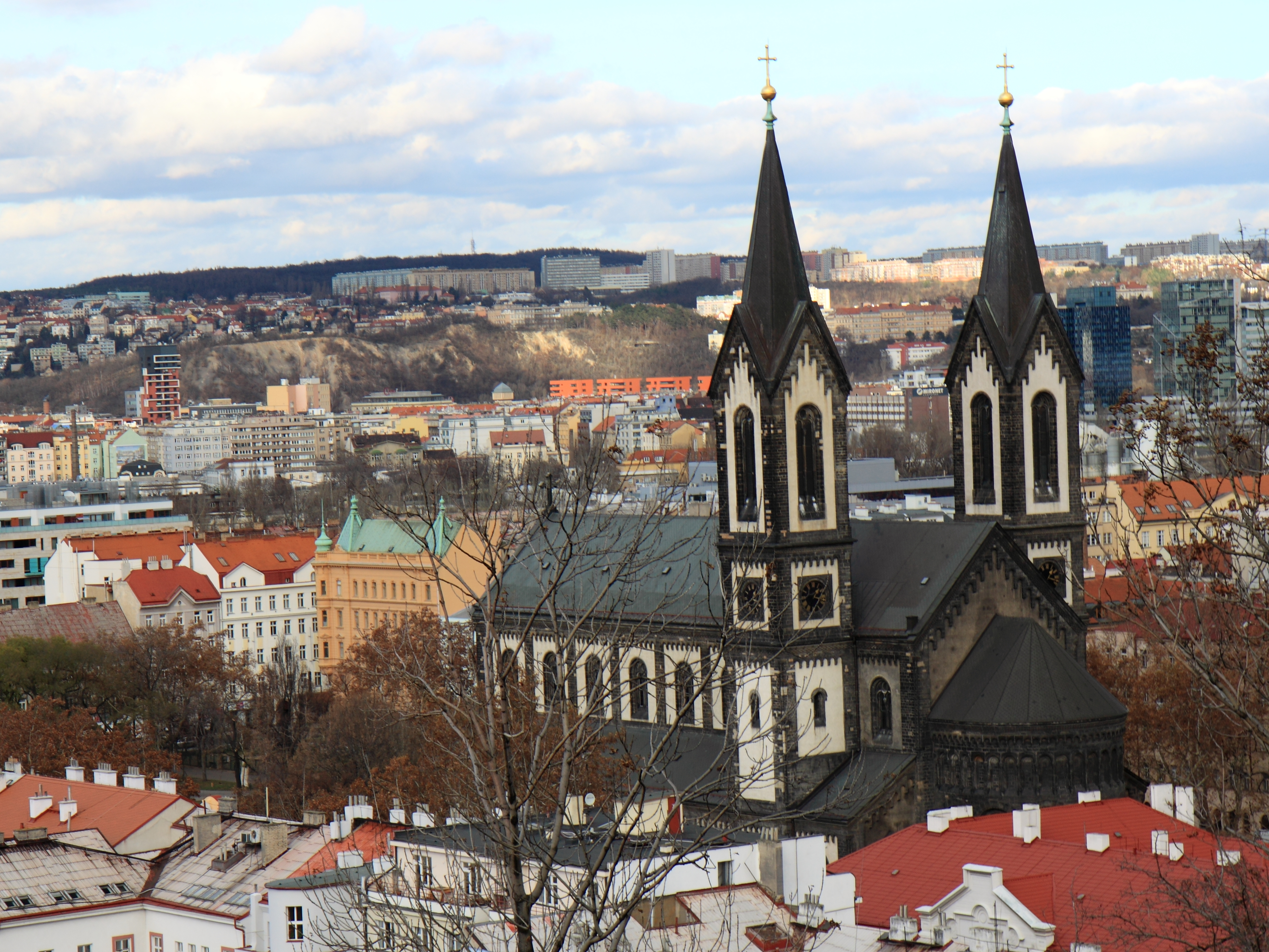 The church of Saints Cyril and Methodius in Karlín (Prague) from the nearby hill of Vítkov